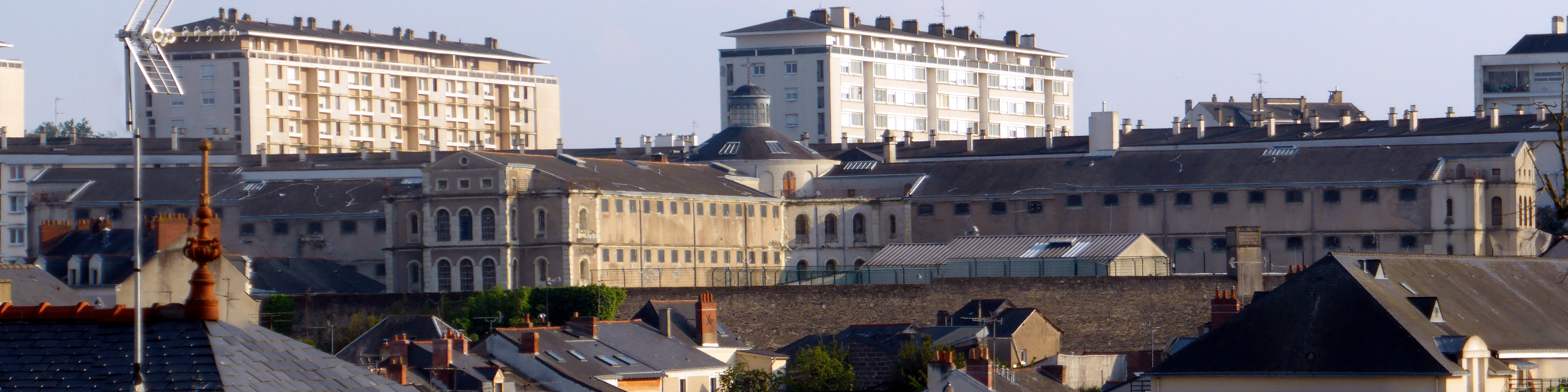 The prison of the Pré-Pigeon in Angers, France.